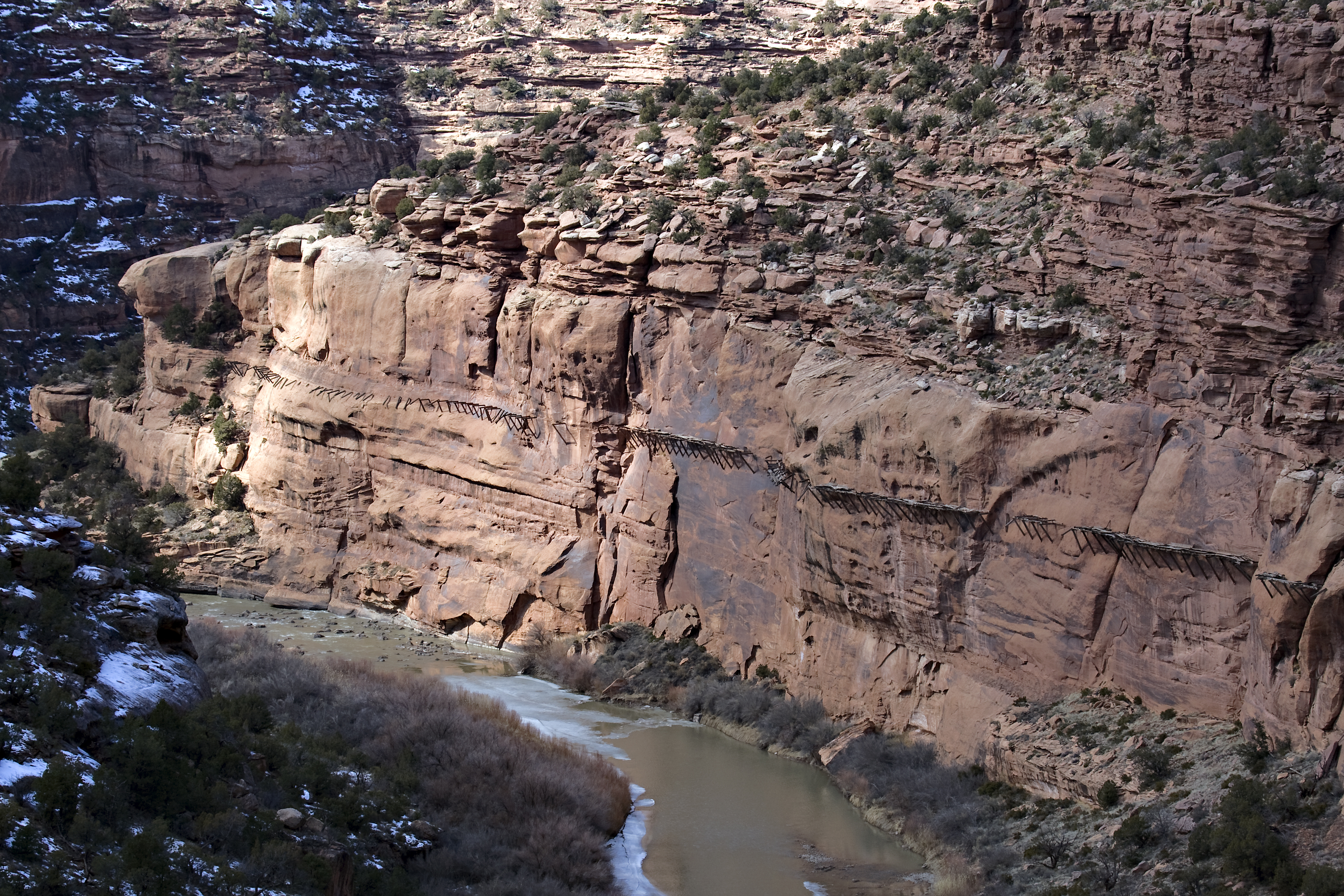 Hanging Flume near Uravan, Colorado